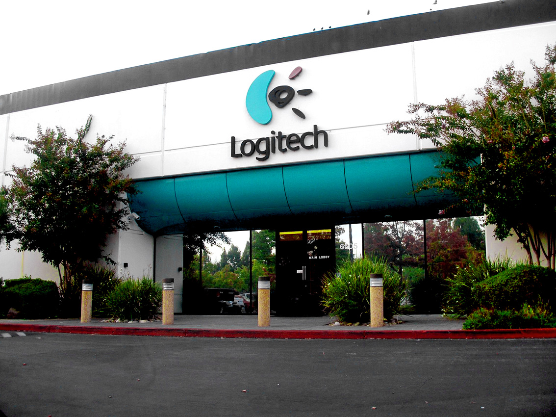 Logitech's previous North American office in Fremont, California.